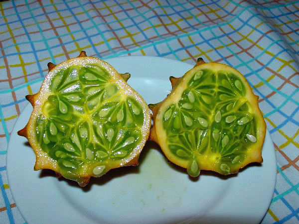 Fruit sliced of horned melon, or kiwano, Cucumis metuliferus. Photo by M. A. P. Accardo Filho.